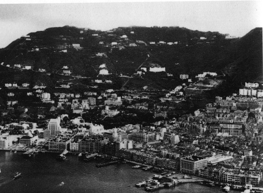 Bird view of Central & Sheung Wan, Hong Kong, 1940